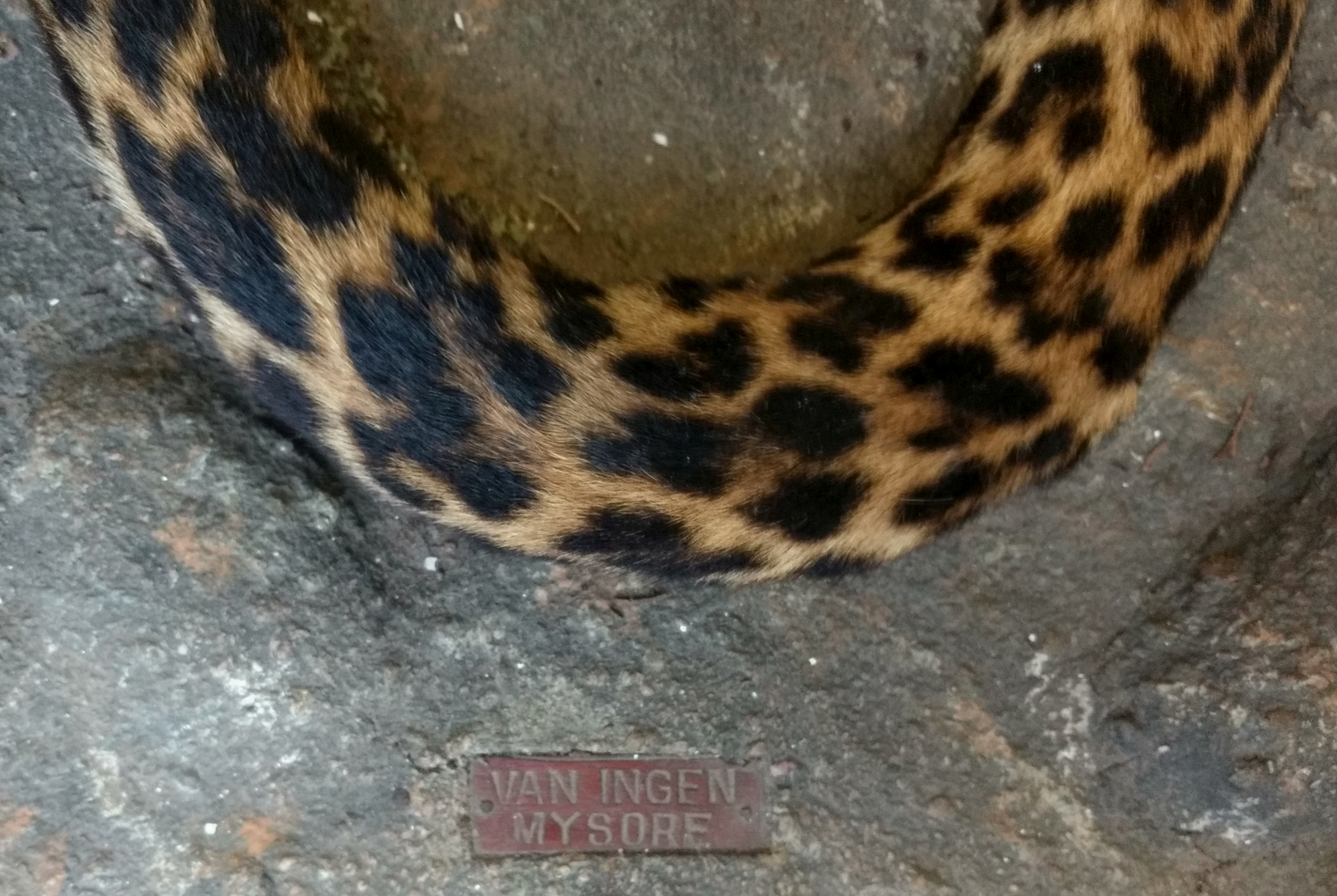 Label of a Van Ingen taxidermy mount (leopard).